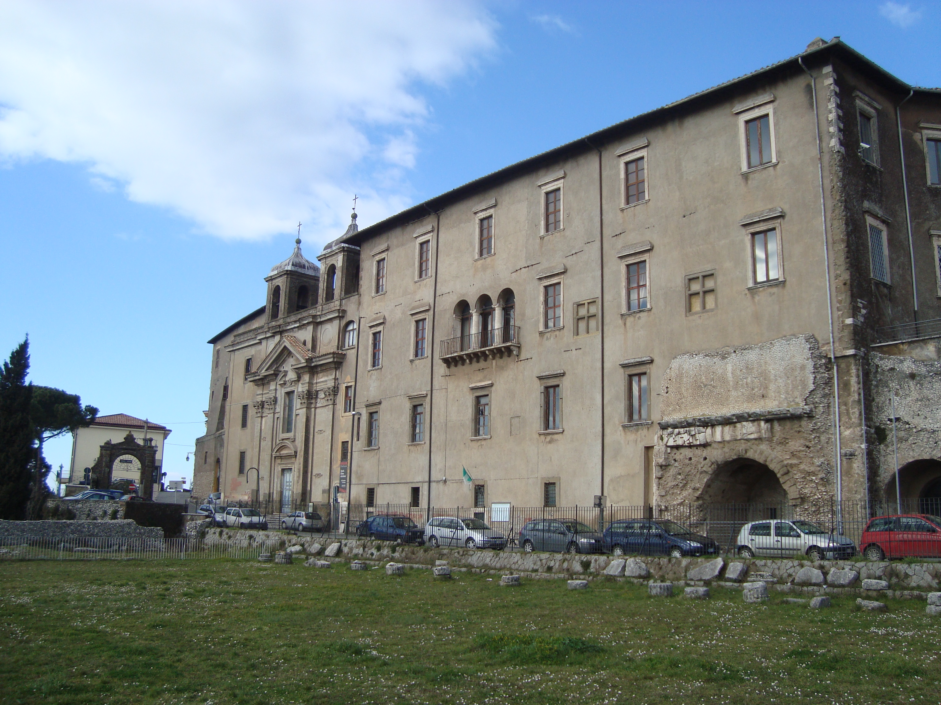 The right aisle of the Palazzo Barberini in Palestrina